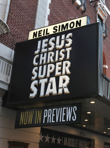 Jesus Christ Superstar at Neil Simon Theatre in Broadway